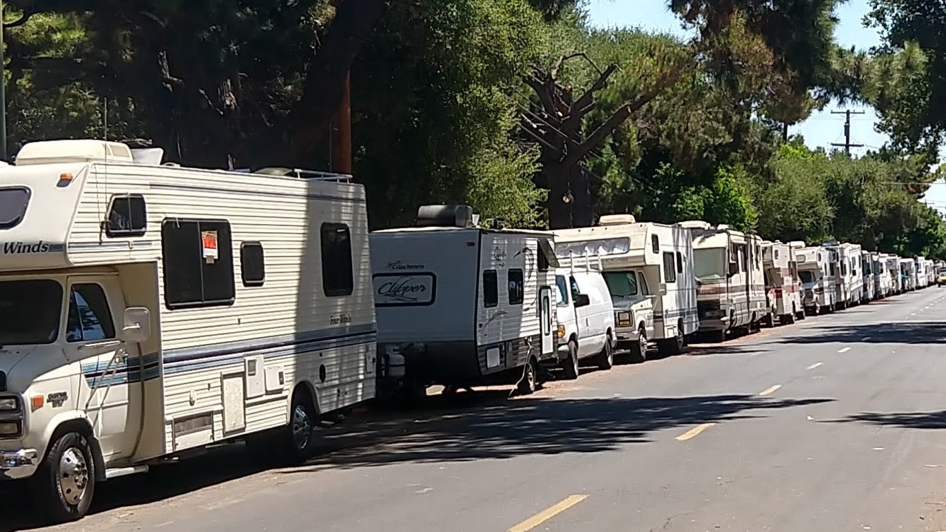 A line of RV campers being used as residences on a city street in Mountain View, CA Photo taken in August 2019